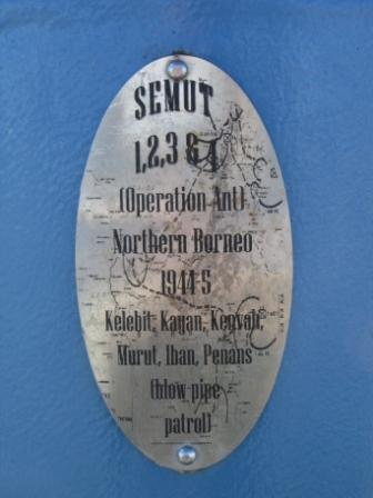 A comemorative plaque for the Z Special Unit at the new jetty at Rockingham, Western Australia.